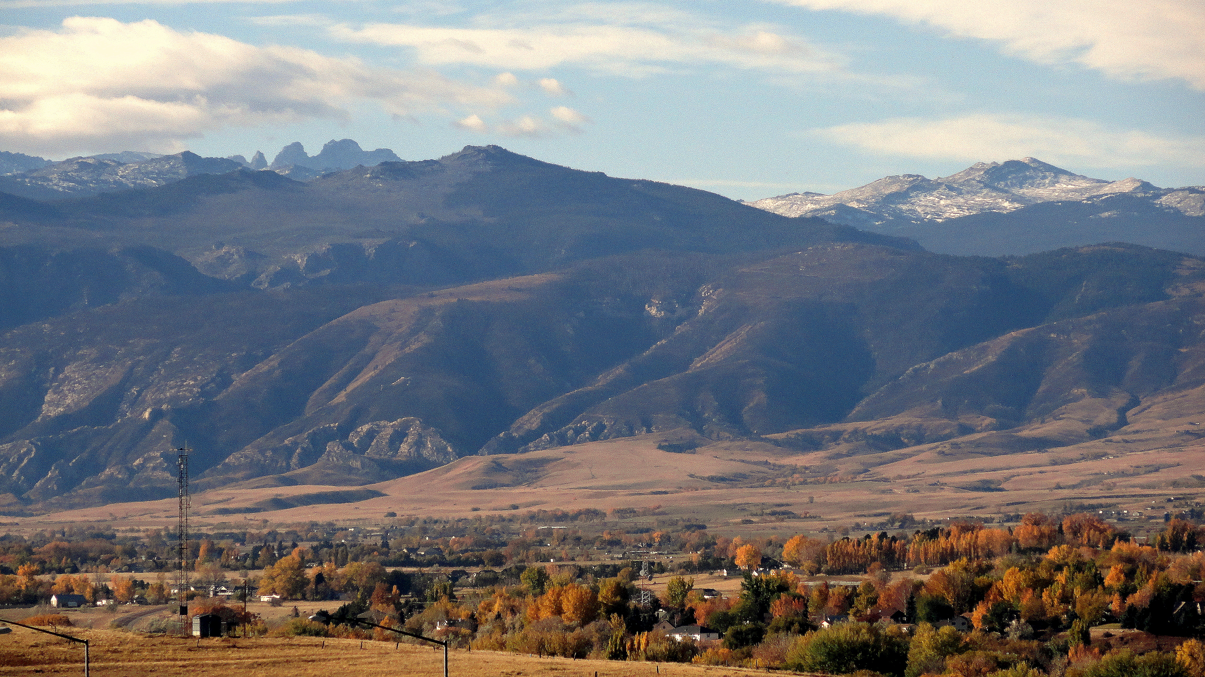 Sheridan, Wyoming near the Bighorn Mountains.